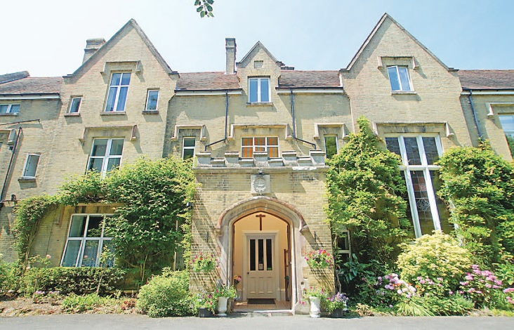 As a convent in 2017